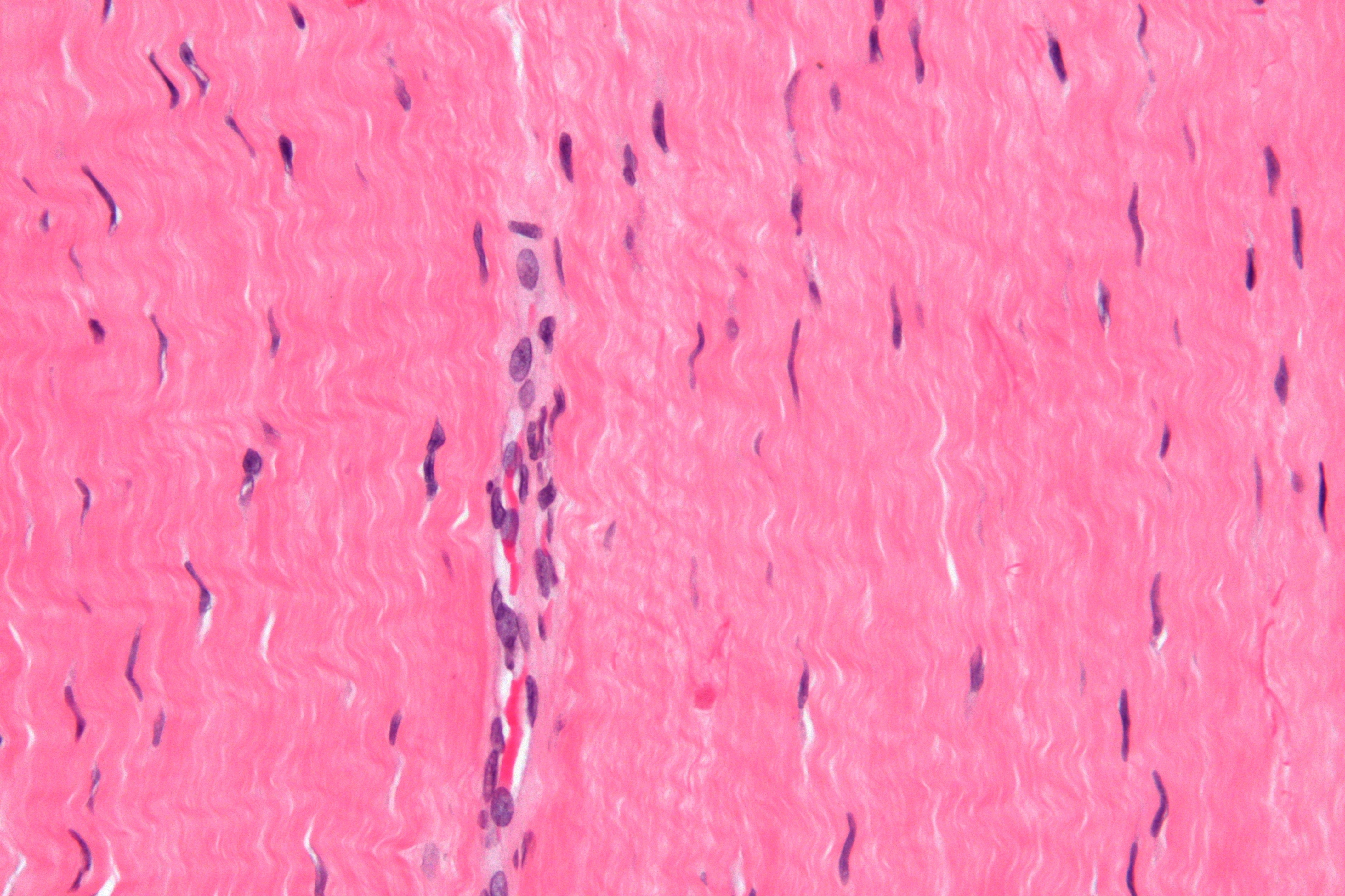 Very high magnification micrograph of a tendon removed in an excision for fibromatosis. H&E stain. Related images Intermed. mag. High mag. Very high mag. High mag.